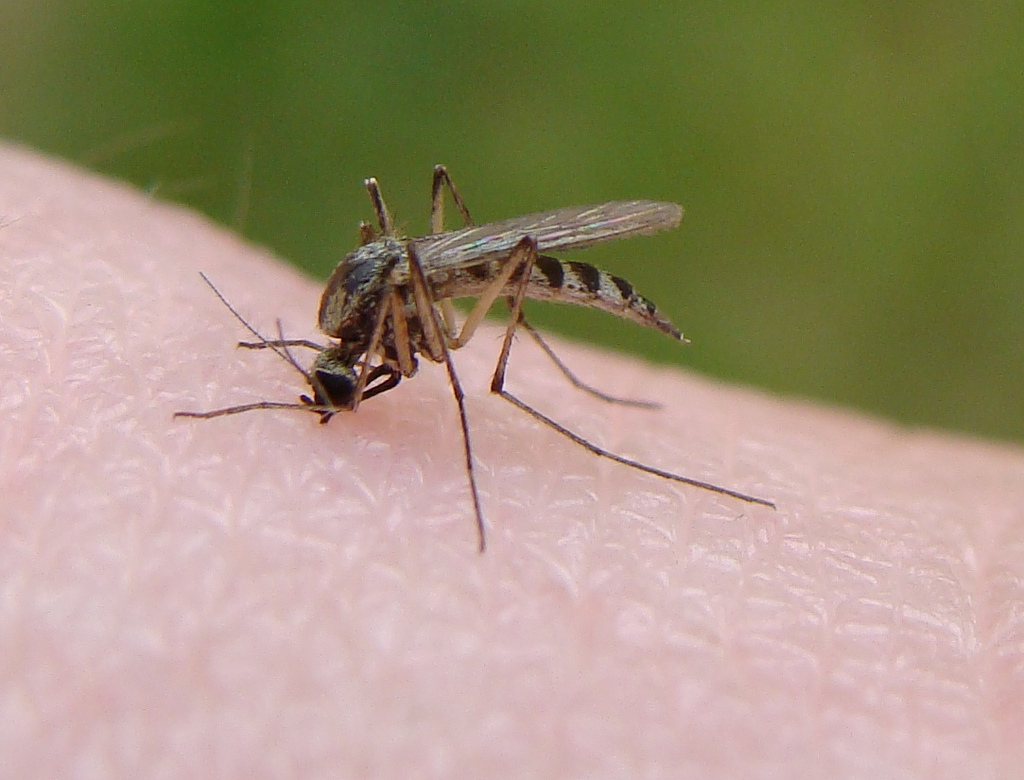 A mosquito biting the photographer